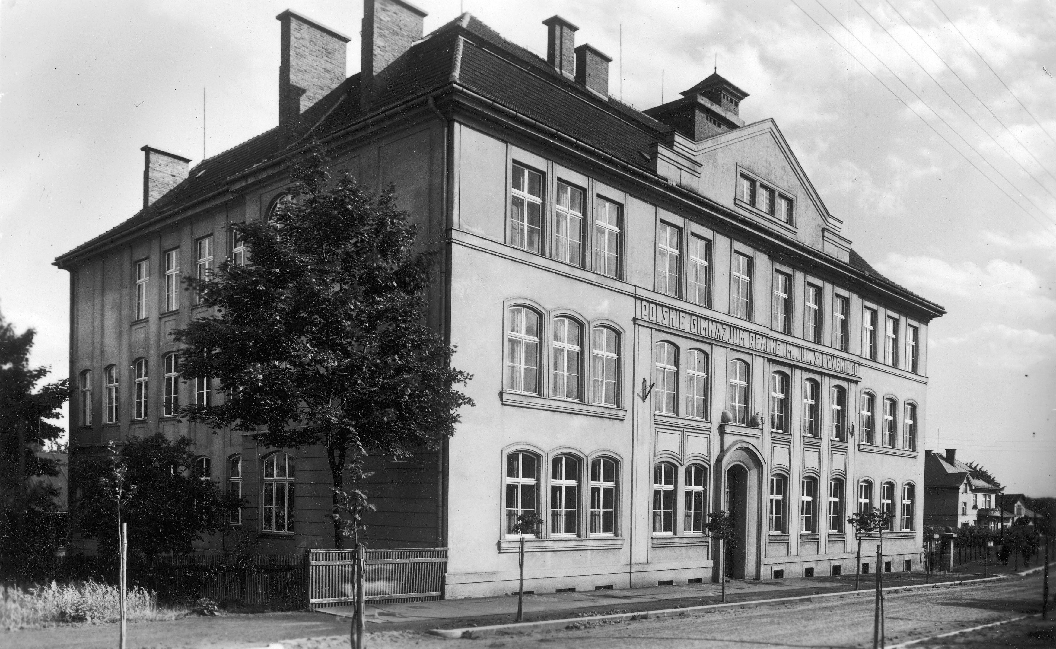 Juliusz Słowacki Polish Grammar School in Orłowa, Zaolzie, Czechoslovakia